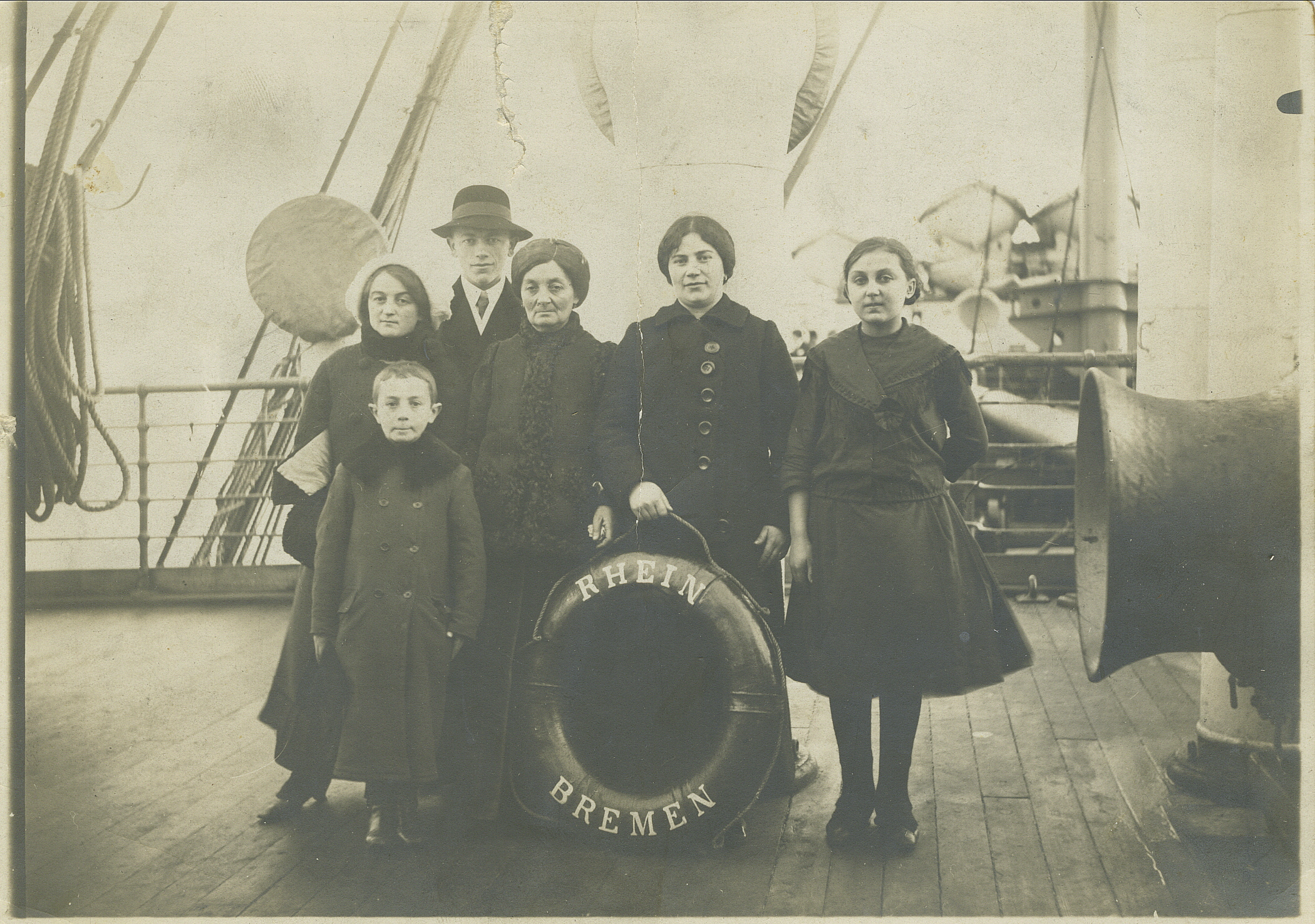 Photo of Austrian Jewish immigrants to Philadelphia, Feb. 1, 1913 on board ship SS Rhein, coming from Bremen, Germany.